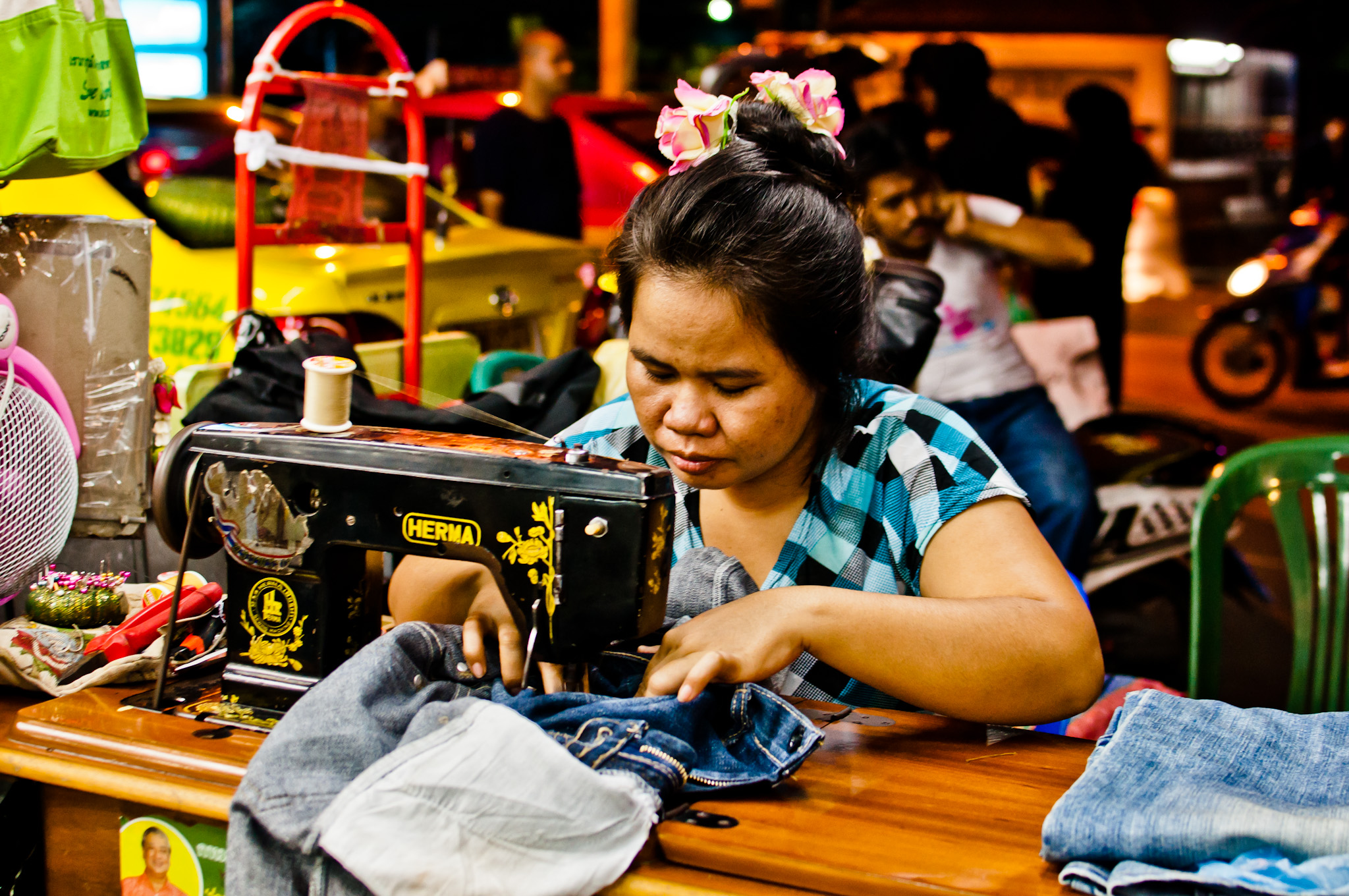 A seamstress repairs a pair of jeans at her streetside sewing stand on Sukhumvit Soi 3 in Bangkok, Thailand. These foot-powered sewing machines are a common sight along many streets in Bangkok.